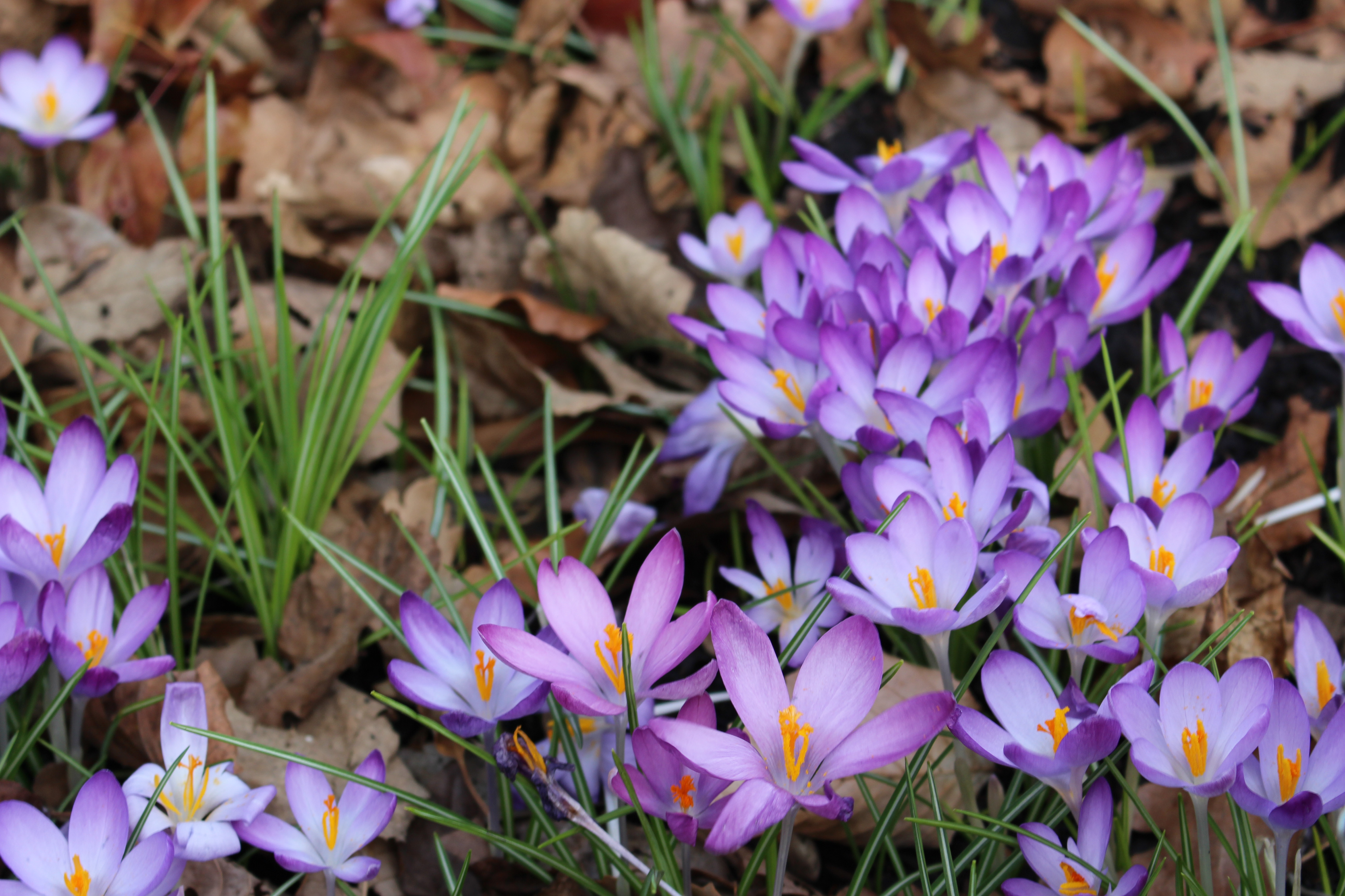 Crocus vernus in Kew Gardens, England.